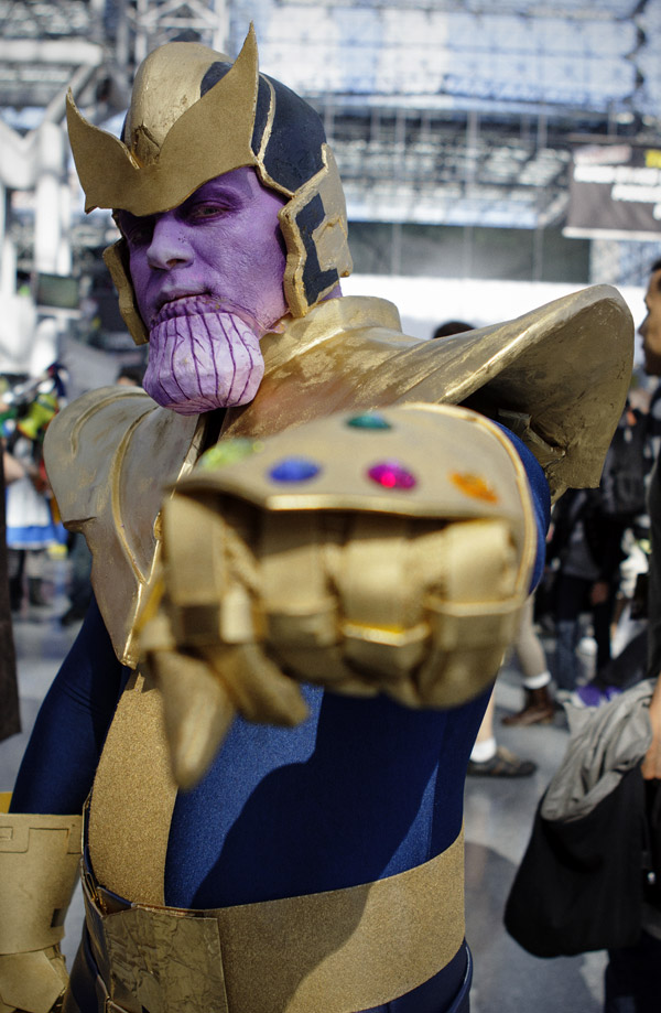 Cosplay of Thanos (Marvel Comics).